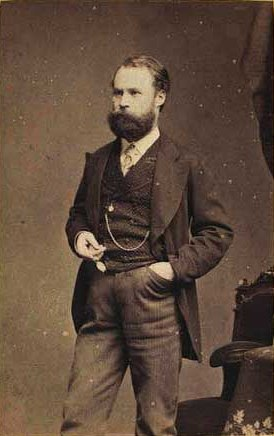 Gustav Adolph Falck (1833-1892), Danish industrialist, director of Royal Copenhagen